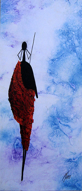 "Alone in Blue" by Moses Wanyuki - (18x41cm), acrylic and ink on paper